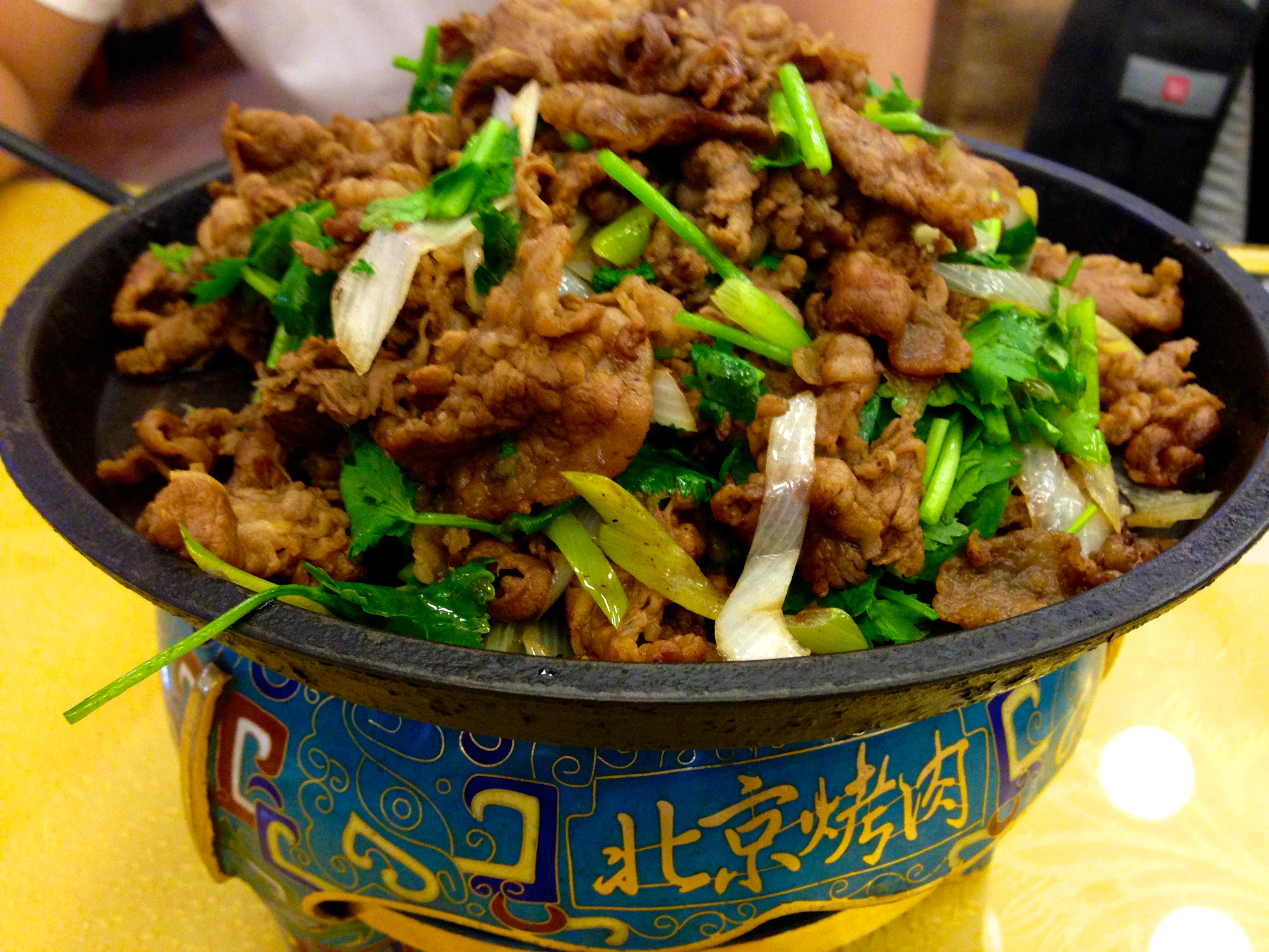 Beijing Style barbecue